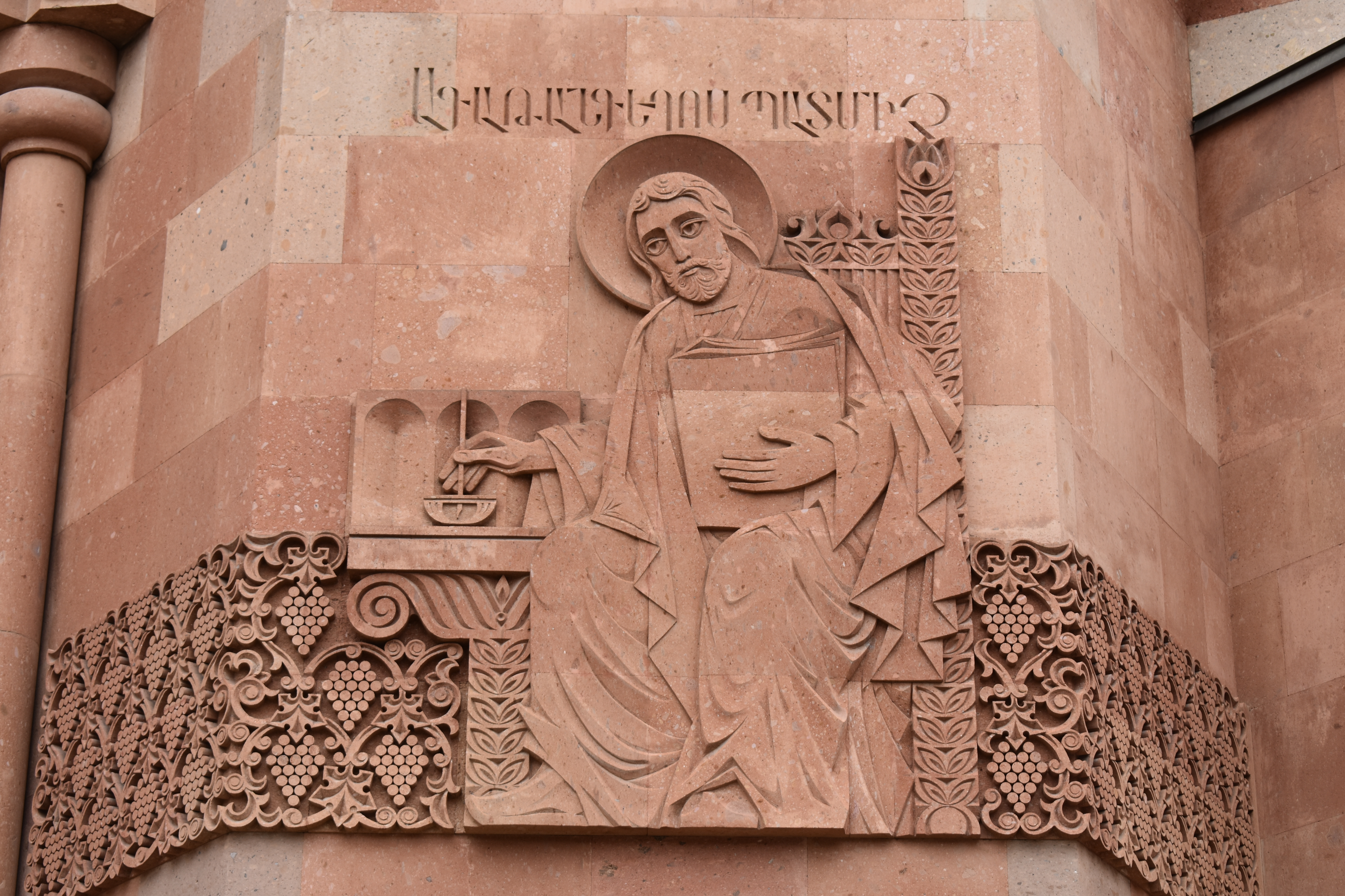 Armenian Cathedral of Moscow